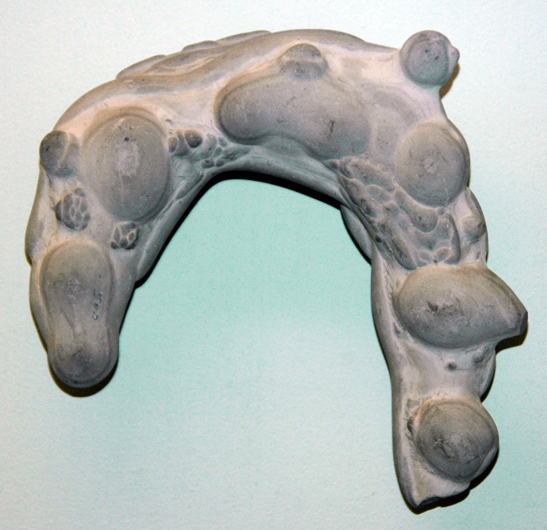 Marlstone (lime-clay) aggregate concretion from Sault Ste. Marie, eastern Upper Peninsula of Michigan, USA (public display, Field Museum of Natural History, Chicago, Illinois, USA). Concretions are post-depositional structures found in some sedimentary successions, particularly in shales. They vary in mineralogy, size, and shape, but often have slightly flattened spheroidal shapes. They typically form by post-depositional mineralization around some nucleus (a rock fragment or fossil fragment).